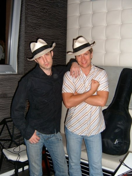 Lucky Luke